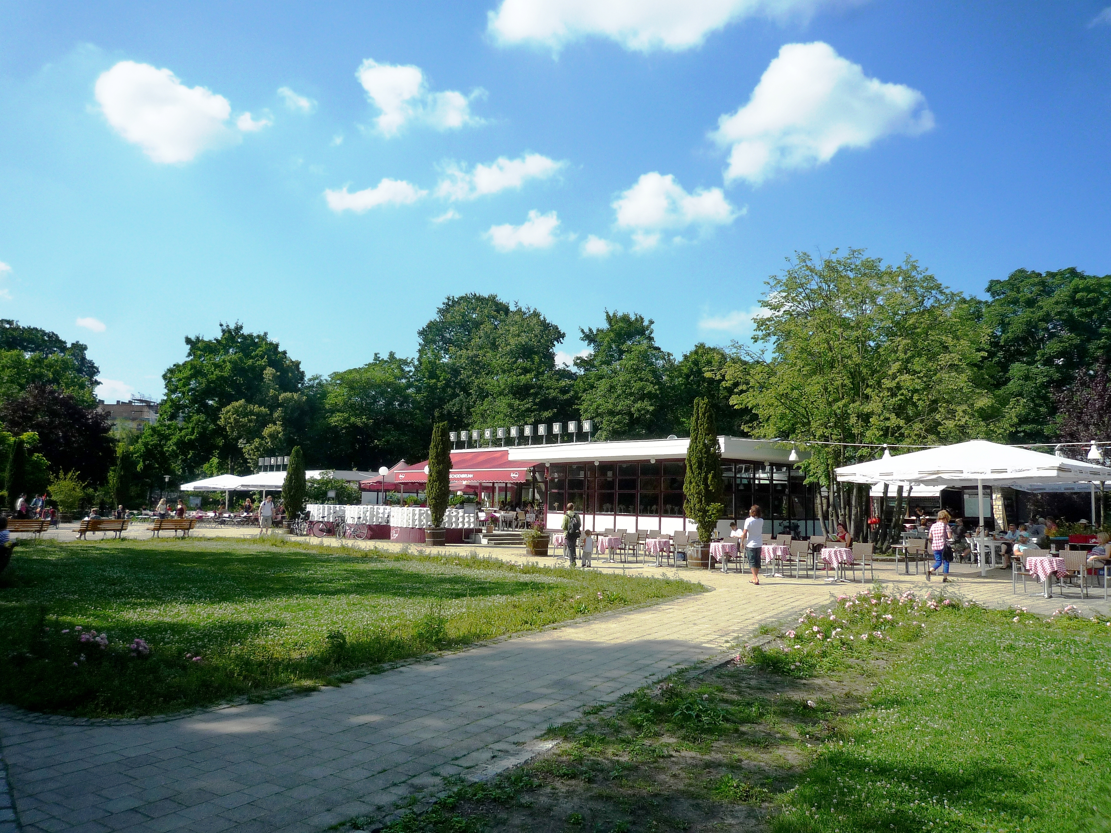 Restaurant Schoenbrunn in the public gardens Berlin-Friedrichshain, total view.